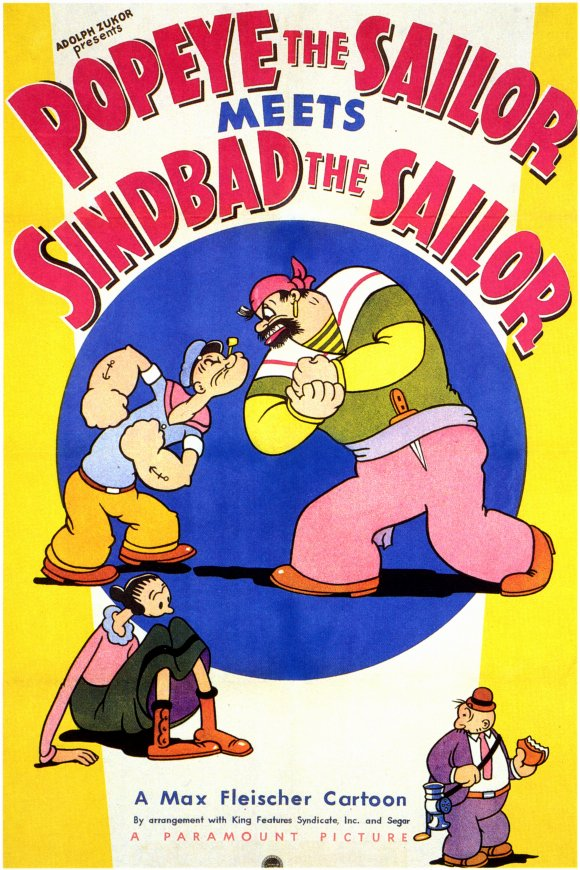 Theatrical poster from the short Popeye the Sailor Meets Sindbad the Sailor.